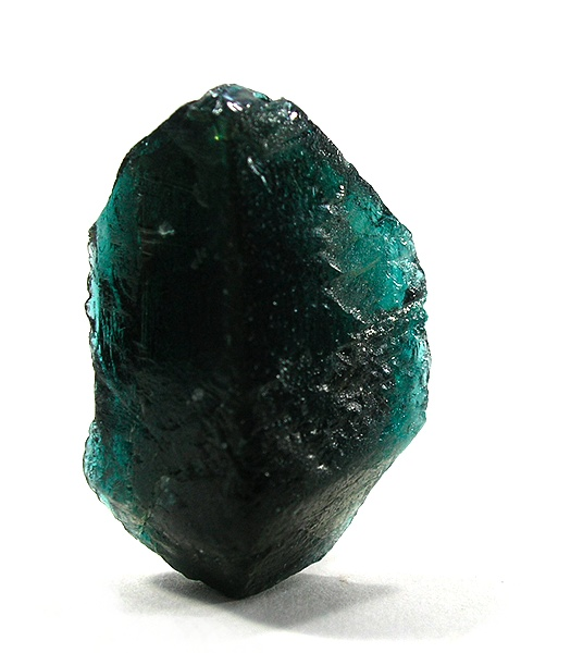 Lazulite Locality: Nanga Parbat area south of Gilgit, near Chilas, Pakistan Size: thumbnail, 2.4 x 1.7 x 0.8 cm Lazulite Lazulite from this small find, of about 7-8 years ago, constitutes the clear best of species material for its kind. These crysatls are not only huge compared to all other lazulite, but they are GEMMY to the point where much of the material went for gem rough. Also, they are multicolored and just plain "neat." For an Afghani phosphate, this came as a total surprise and to my knowledge no more have been found since that first small series of phosphate pods. Although contacted on the back side it displays well from the front. this marvelous, translucent and lustrous, teal blue crystal of lazulite lights up dramatically when backlit even minimally.